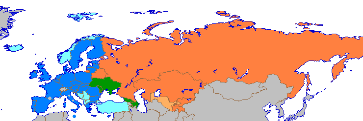 GUAM member state EU member state EEA member or EU candidate state EurAsEC member state